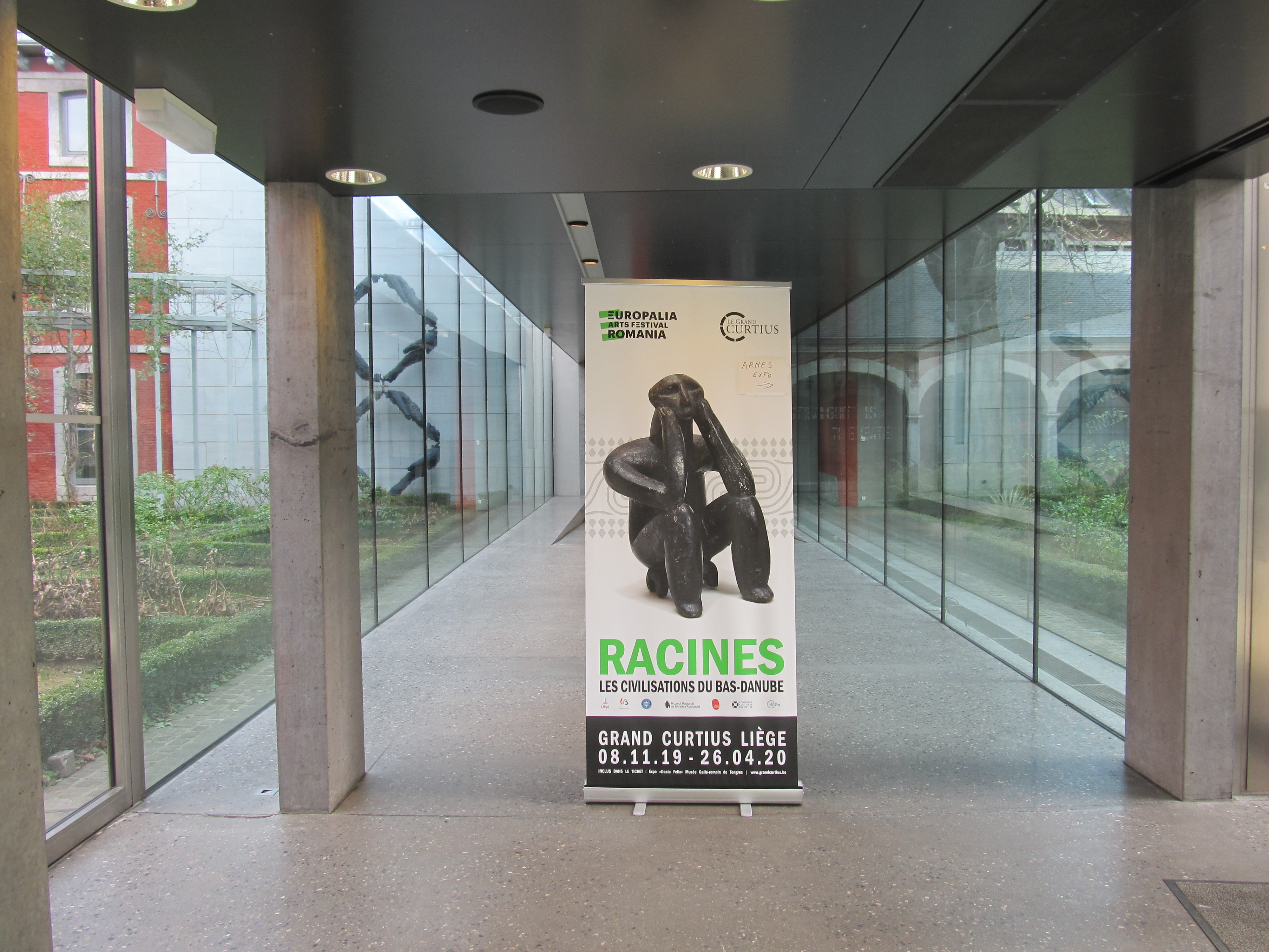 Poster of the "Roots — The civilizations of the Lower Danube" temporary exhibition at Grand Curtius museum in the Belgian city of Liège during Europalia 2019.